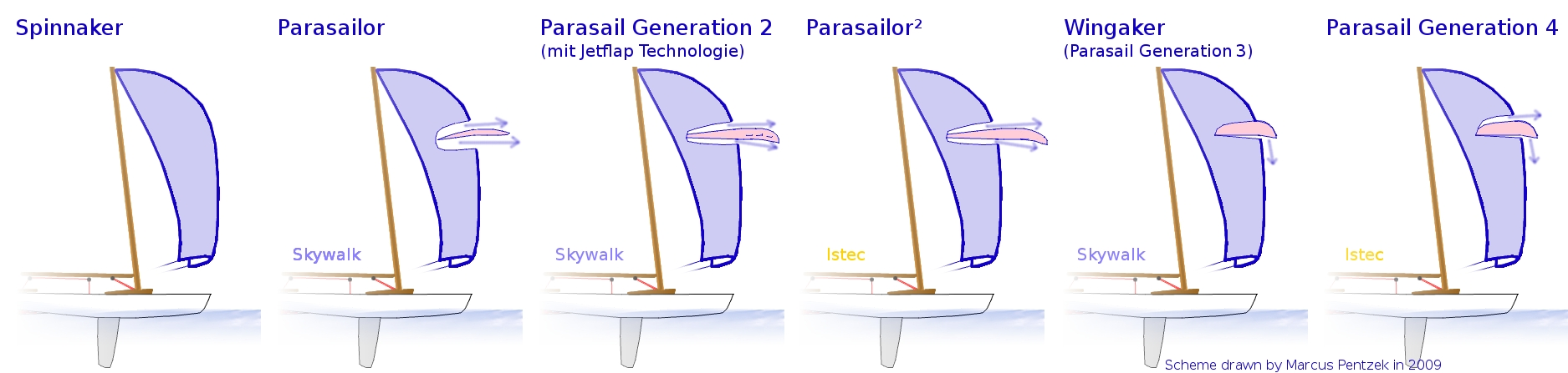 The Graph shows the different versions of a spinnaker sail known as Parasailor, Parasail, Wingaker in evolution by different producers